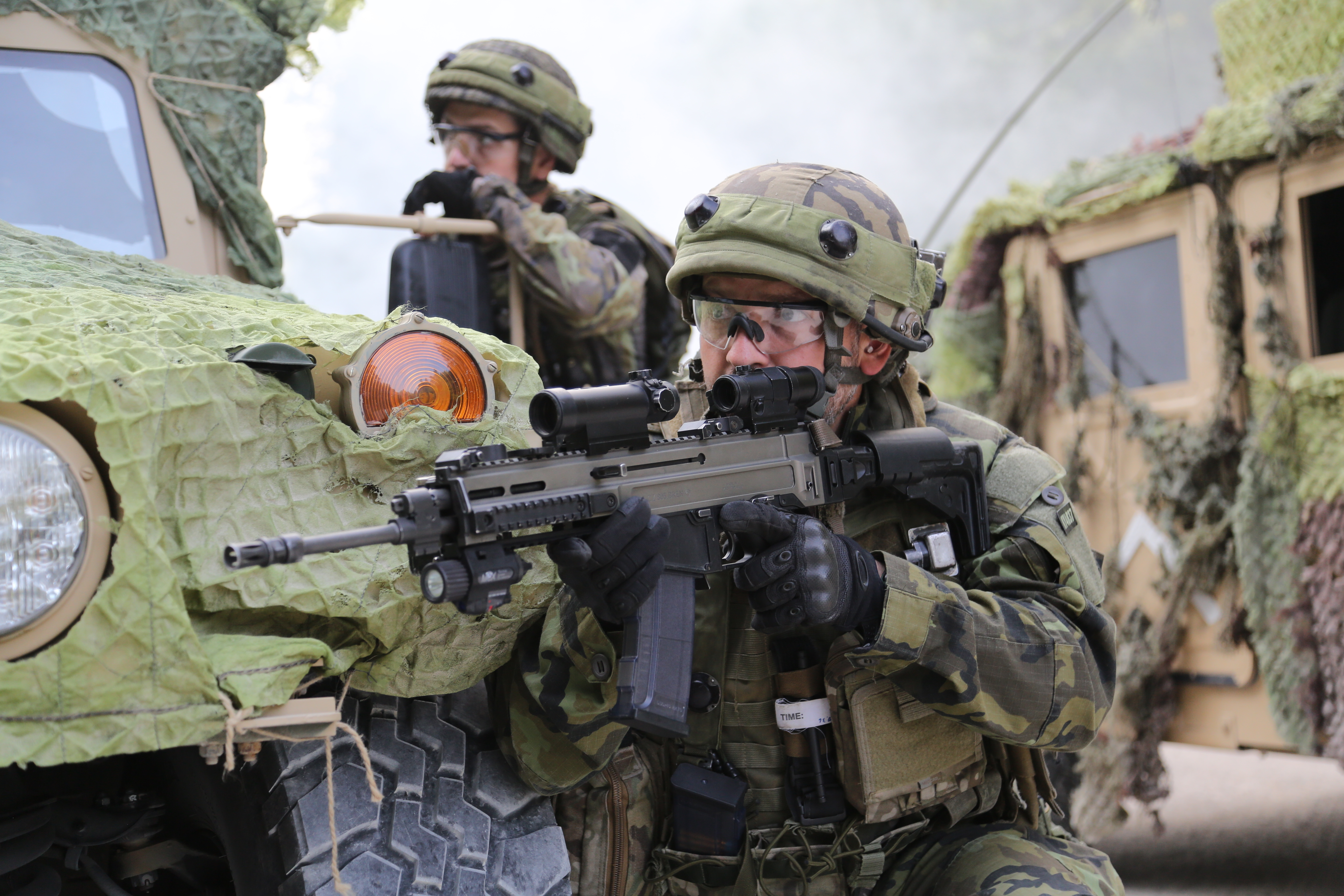 Czech Soldiers of the 74th Light Motorized Battalion, 7th Mechanized Brigade, provide security while conducting a react to contact lane during exercise Allied Spirit II at the U.S. Army’s Joint Multinational Readiness Center in Hohenfels, Germany, Aug. 11, 2015. Allied Spirit II is a multinational decisive action training environment exercise that involves over 3,500 Soldiers from both the U.S., allied, and partner nations focused on building partnerships and interoperability between all participating nations and emphasizing mission command, intelligence, sustainment and fires. (U.S. Army photo by Spc. Courtney Hubbard/Released)